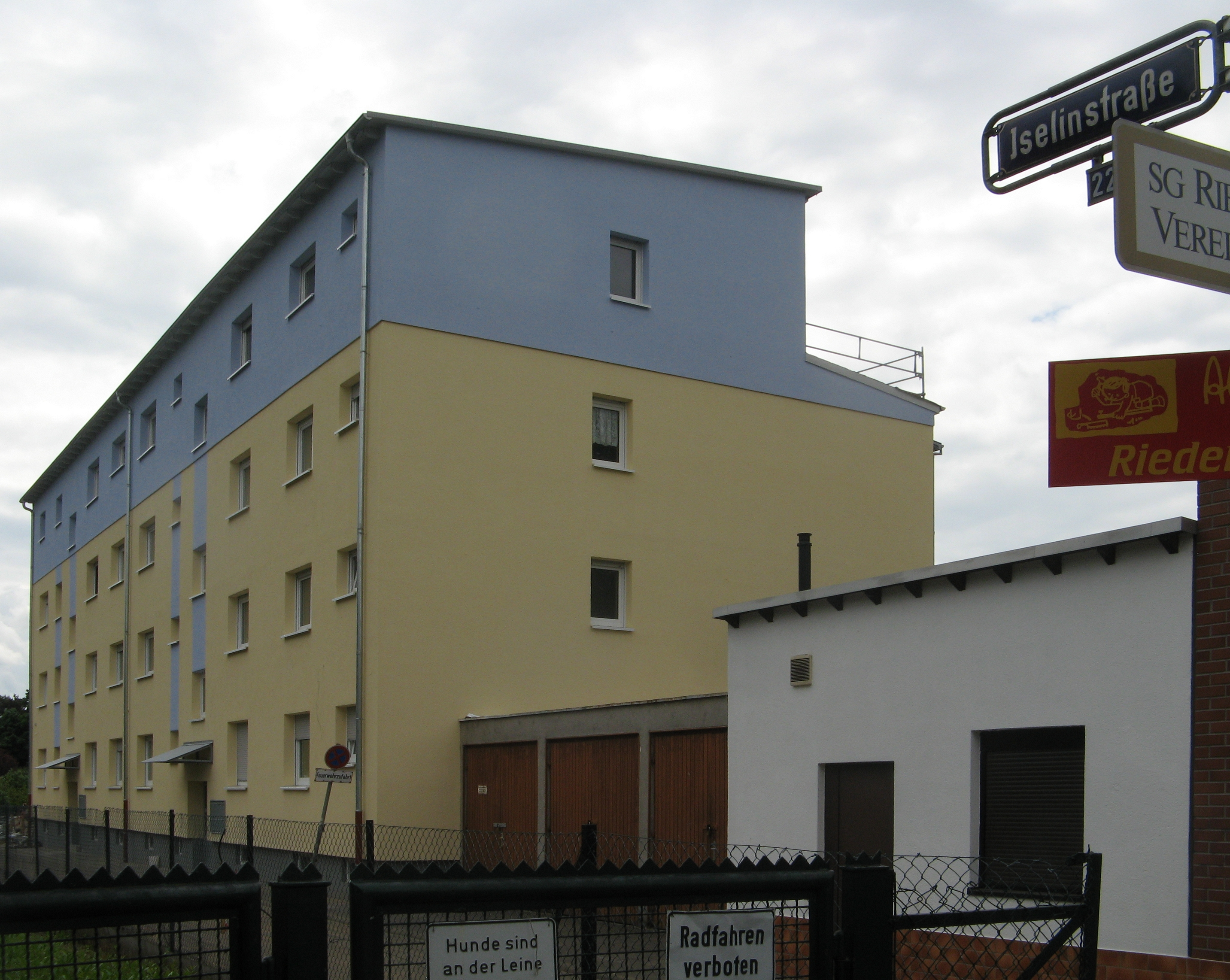 House in the Iselinstrasse in Frankfurt-Riederwald where grain unfit for consumption is burned for heating. The first on in Germany.